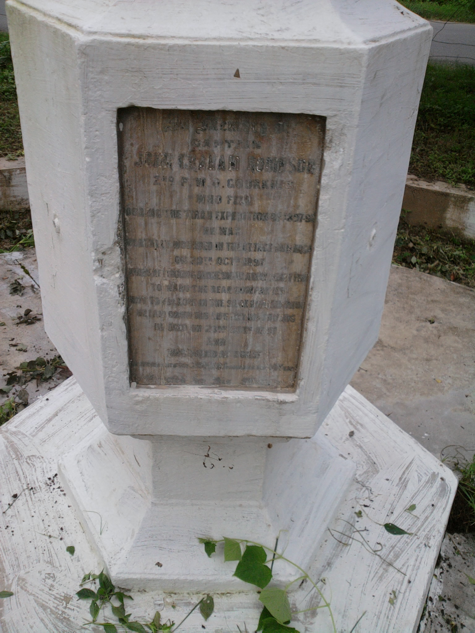 war memorial maint by army at dehradun